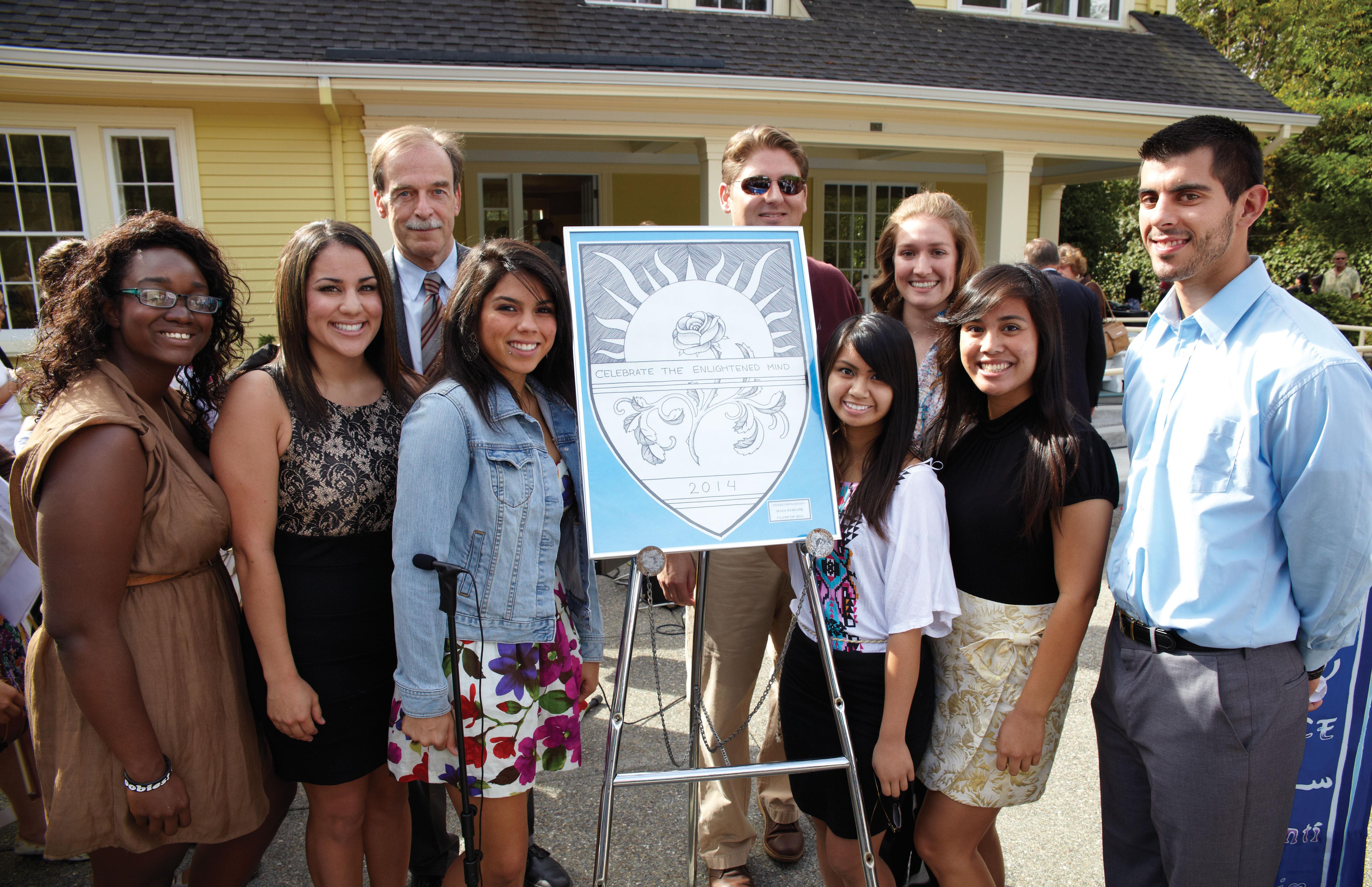 This photo represents the Shield Ceremony at Dominican University of California